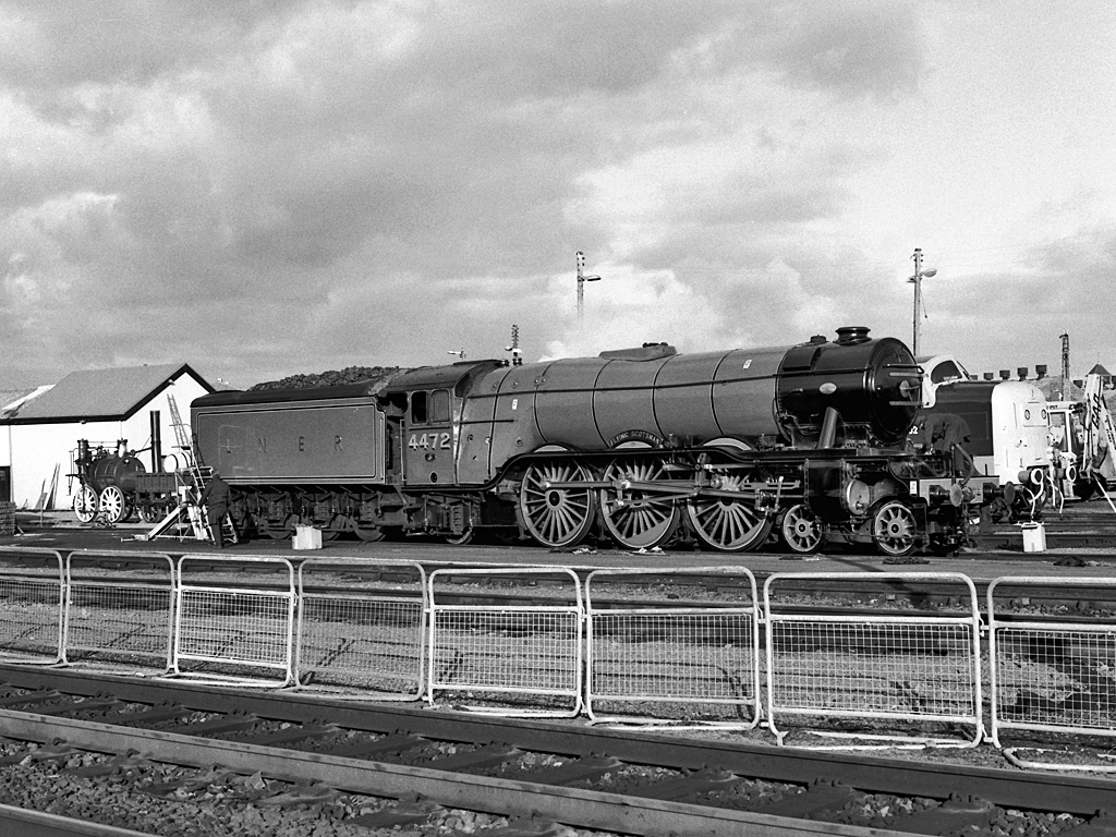 London and North Eastern Railway rebuilt Gresley 4-6-2 ?A3? class locomotive number 4472 FLYING SCOTSMAN of Carnforth MPD stands on Ayr Traction Maintenance Depot prior to the Railfair open day. Friday 28th October 1983